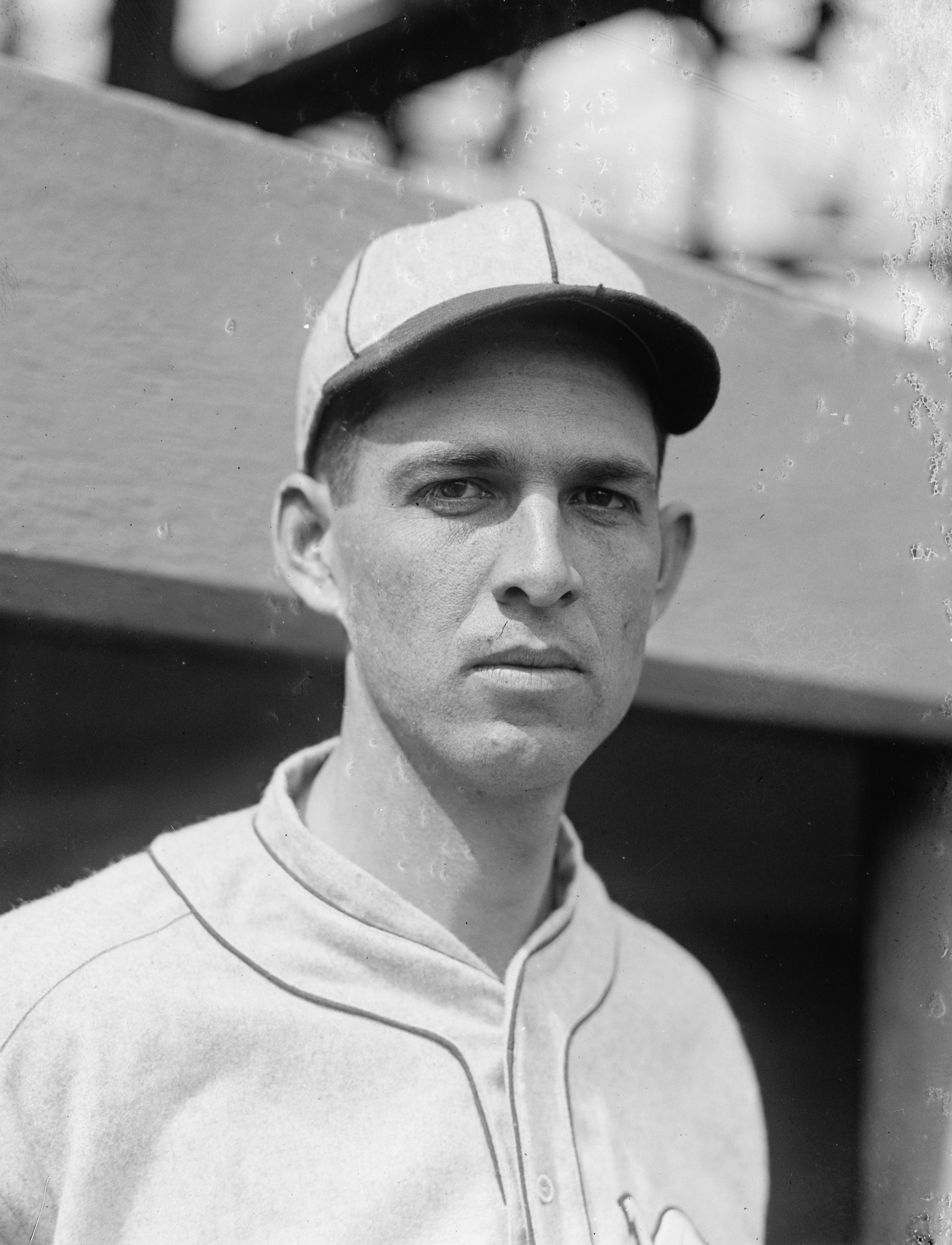 Title: B. Harris, Pitcher Phila., 1924 Abstract/medium: National Photo Company Collection (Library of Congress) Physical description: 1 negative